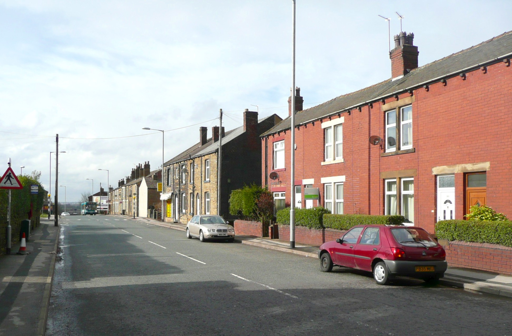 Wakefield Road, Adwalton, Drighlington. Wakefield Road was the A650, but has been renumbered B6135 following the construction of the bypass road.